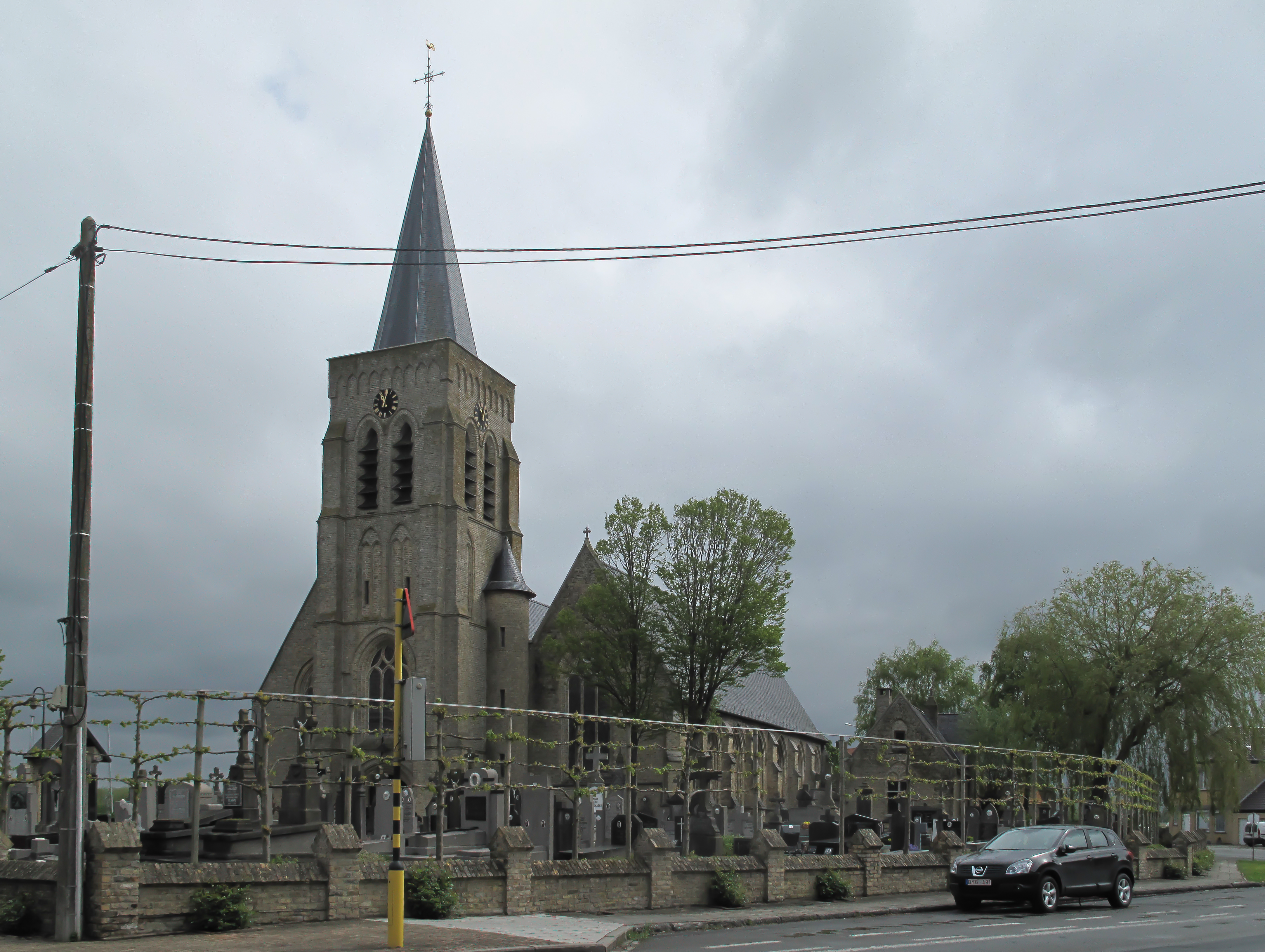 Pervijze, church: parochiekerk Sint-Niklaas en Sint-Katharina